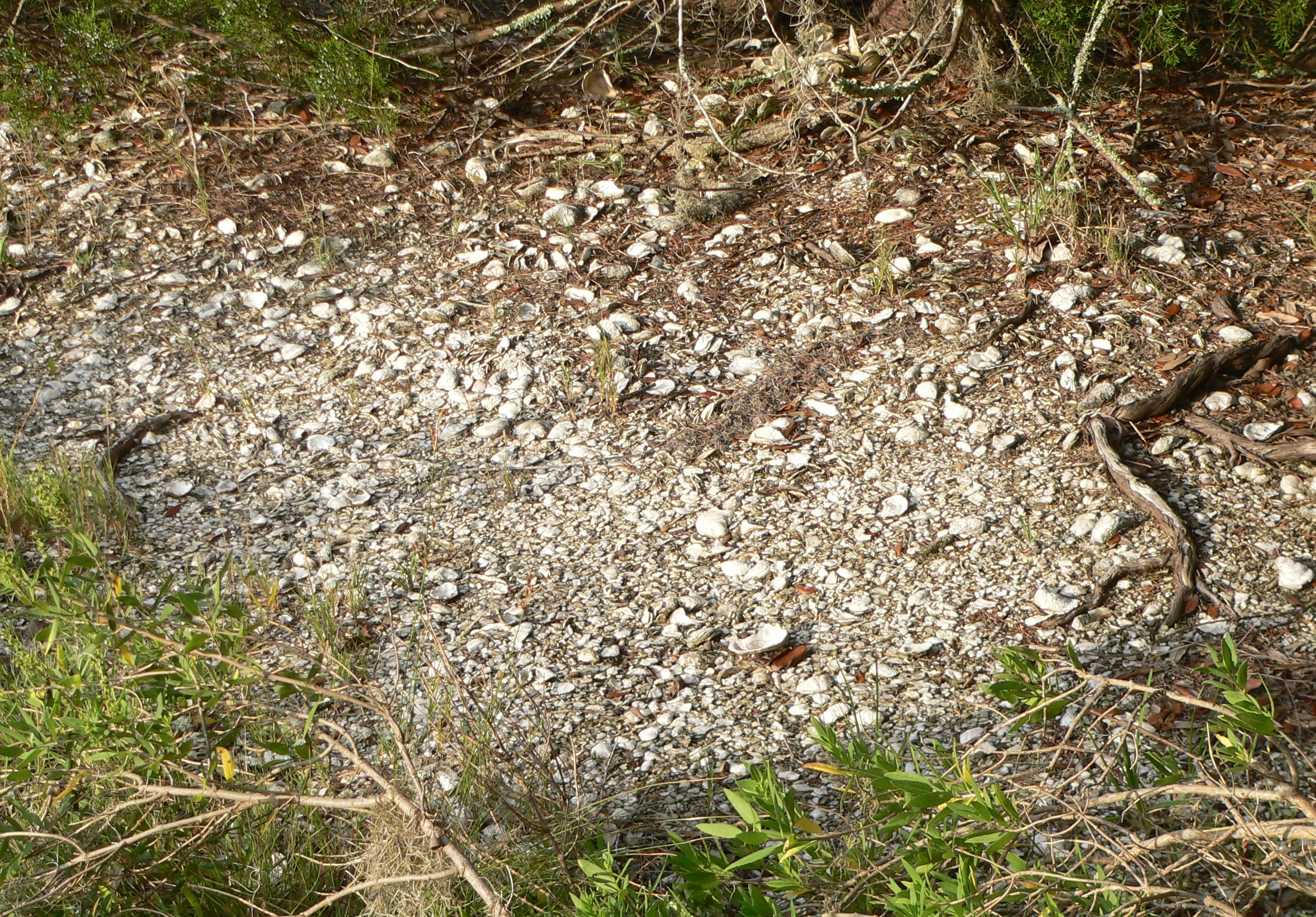 Sewee Shell Ring, located south of Awendaw, South Carolina in Francis Marion National Forest. Detail of southeast side, showing shells of which ring is made.